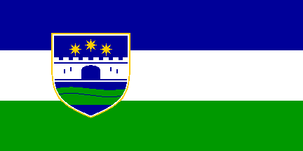 This is the flag of the Una-Sana Canton. There are no copyrights. Created by:Kseferovic.